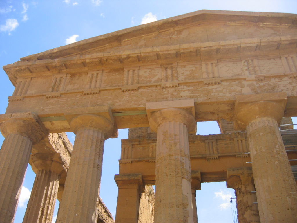 Agrigento (Sicily, Italy). Temple of Concordia.